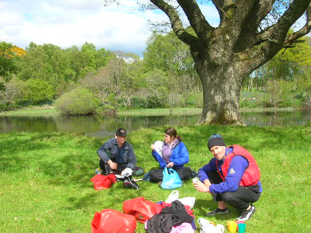 Bend in the river This flat land on the banks of the river is a perfect place for a picnic!